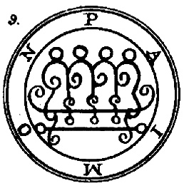 The seal of Paimon